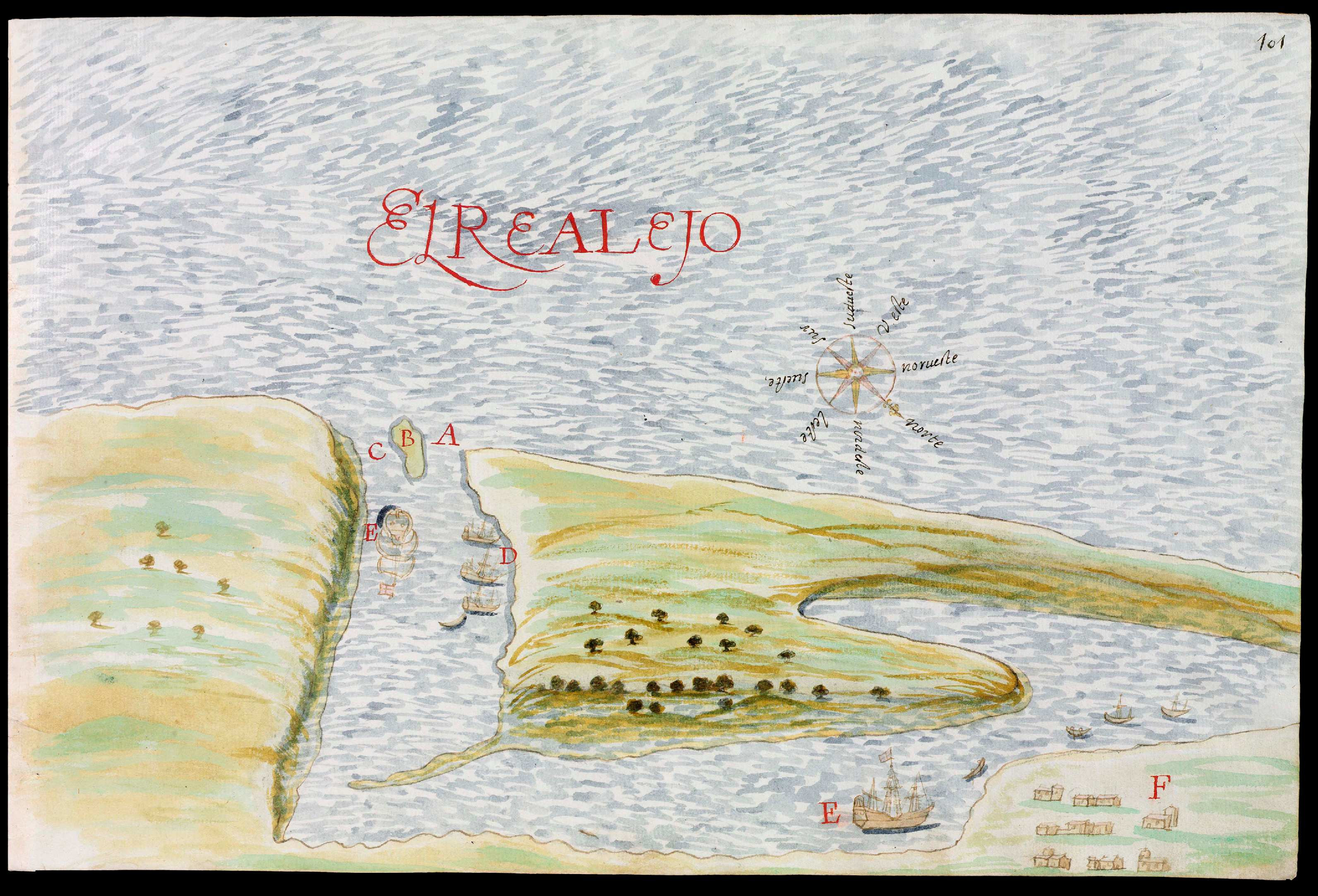 Page 101 of the Descripciones geográphicas e hydrográphicas de muchas tierras y mares del Norte y Sur en las Indias, en especial del descubrimiento del Reino de la California (Geographic and hydrographic descriptions of many northern and southern lands and seas in the Indies, specifically the discovery of the kingdom of California), written by captain Nicolás de Cardona after his expedition of 1614.